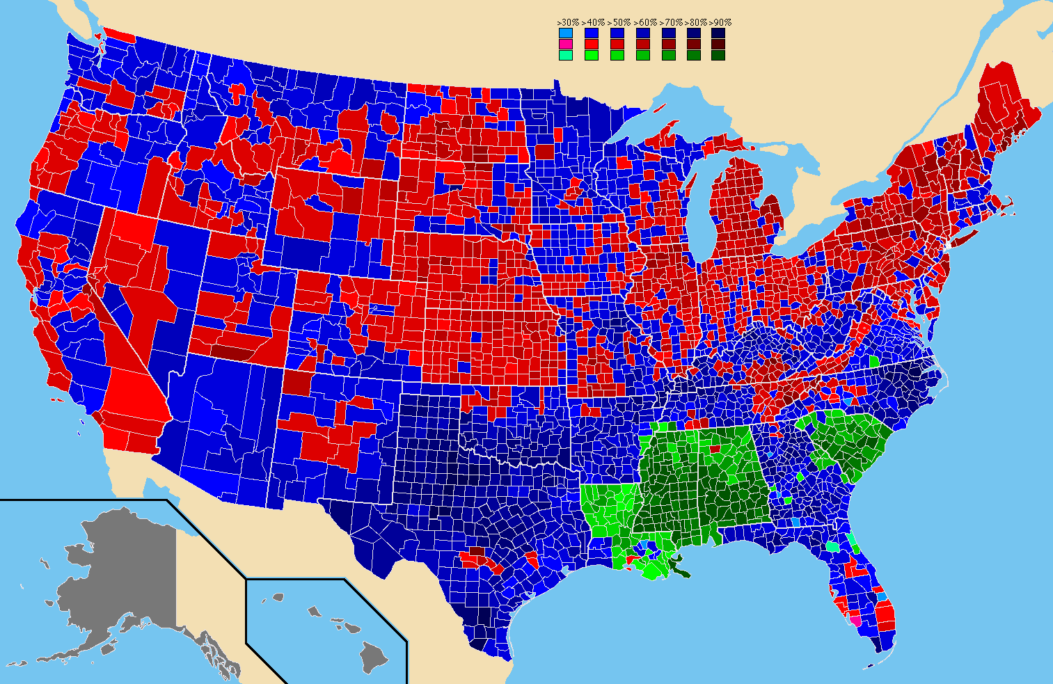 A map of the counties won by each candidate in the United States presidential election.